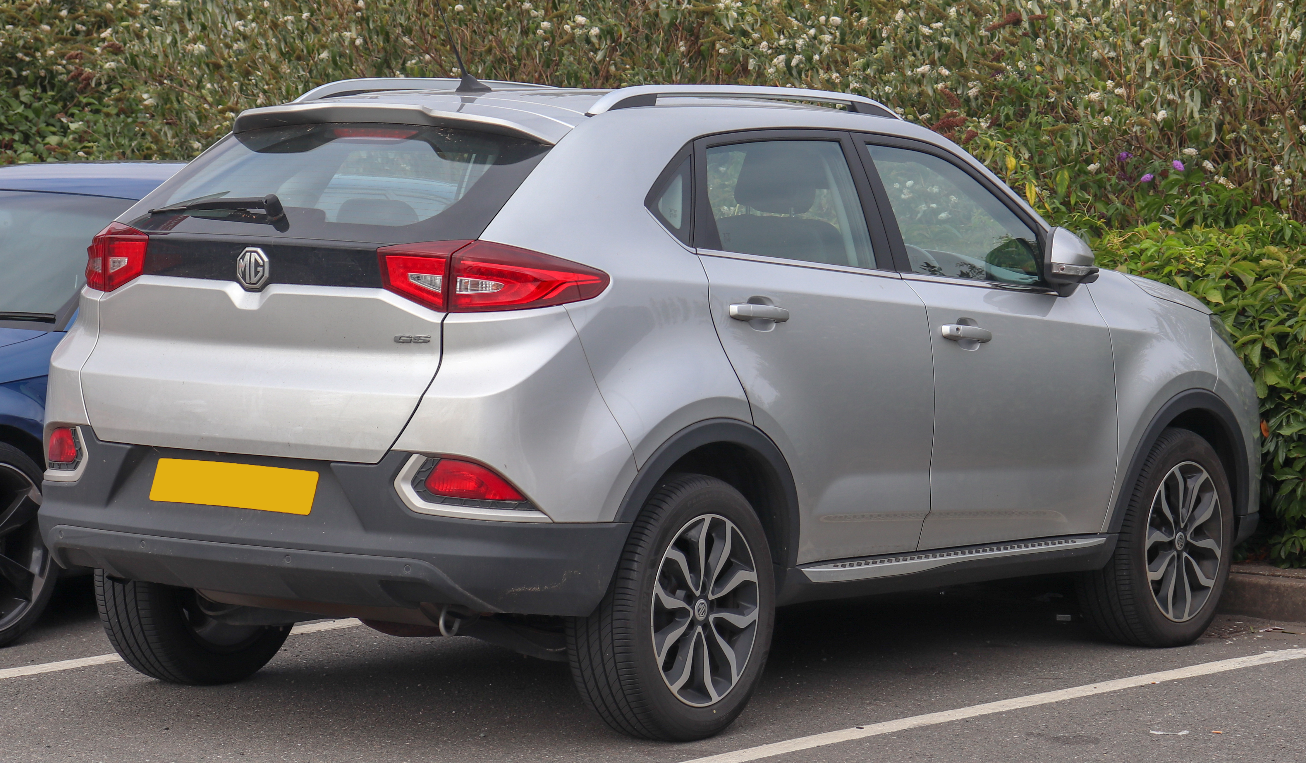 2017 MG GS Exclusive S-A 1.5 Taken in Leamington Spa